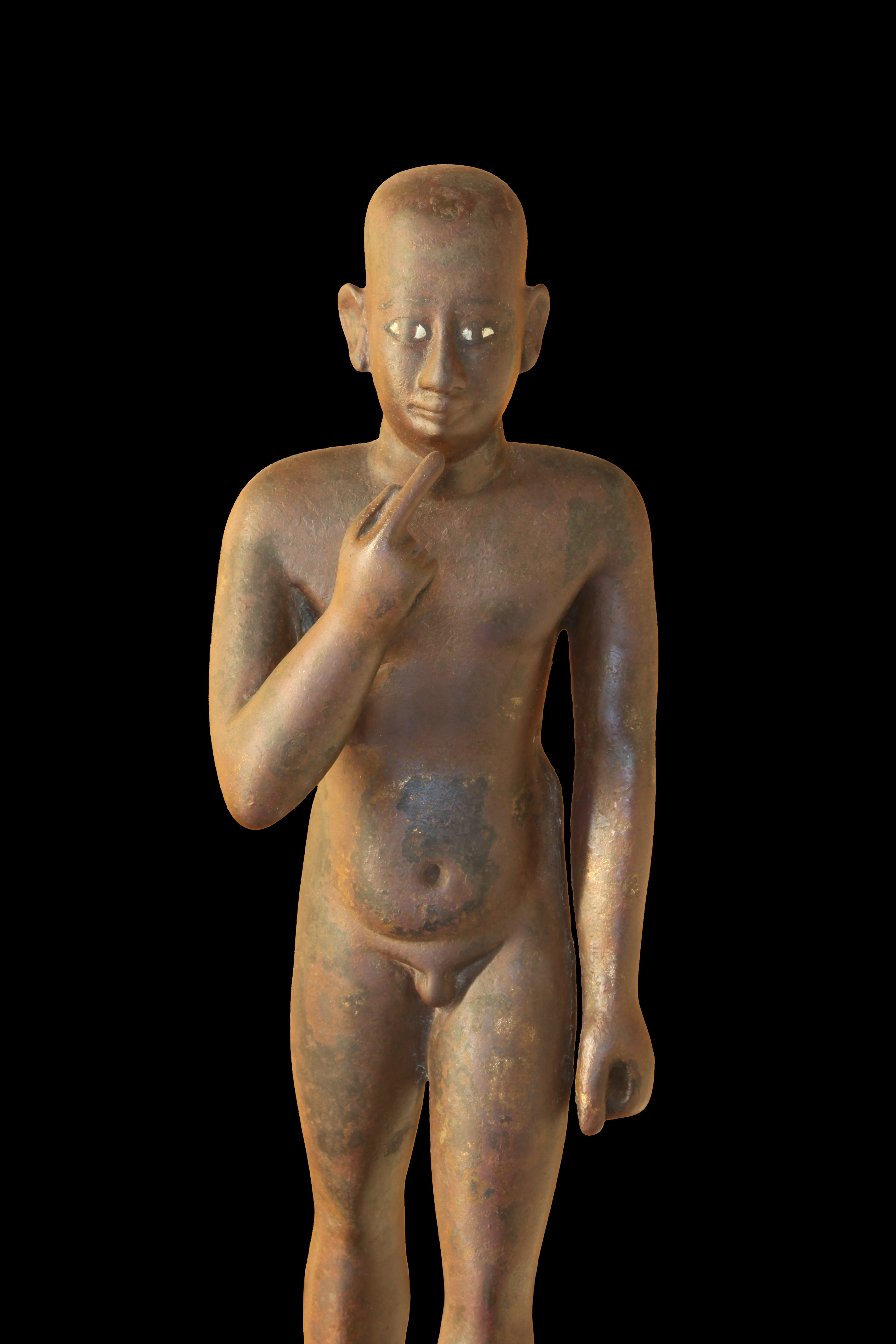 Horus as a child. Lower era, 26th-30th Dynasty (c. 664-332 BCE)